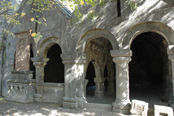 Sanahin monastery. Holy Mother of God Church gavit. Armenia